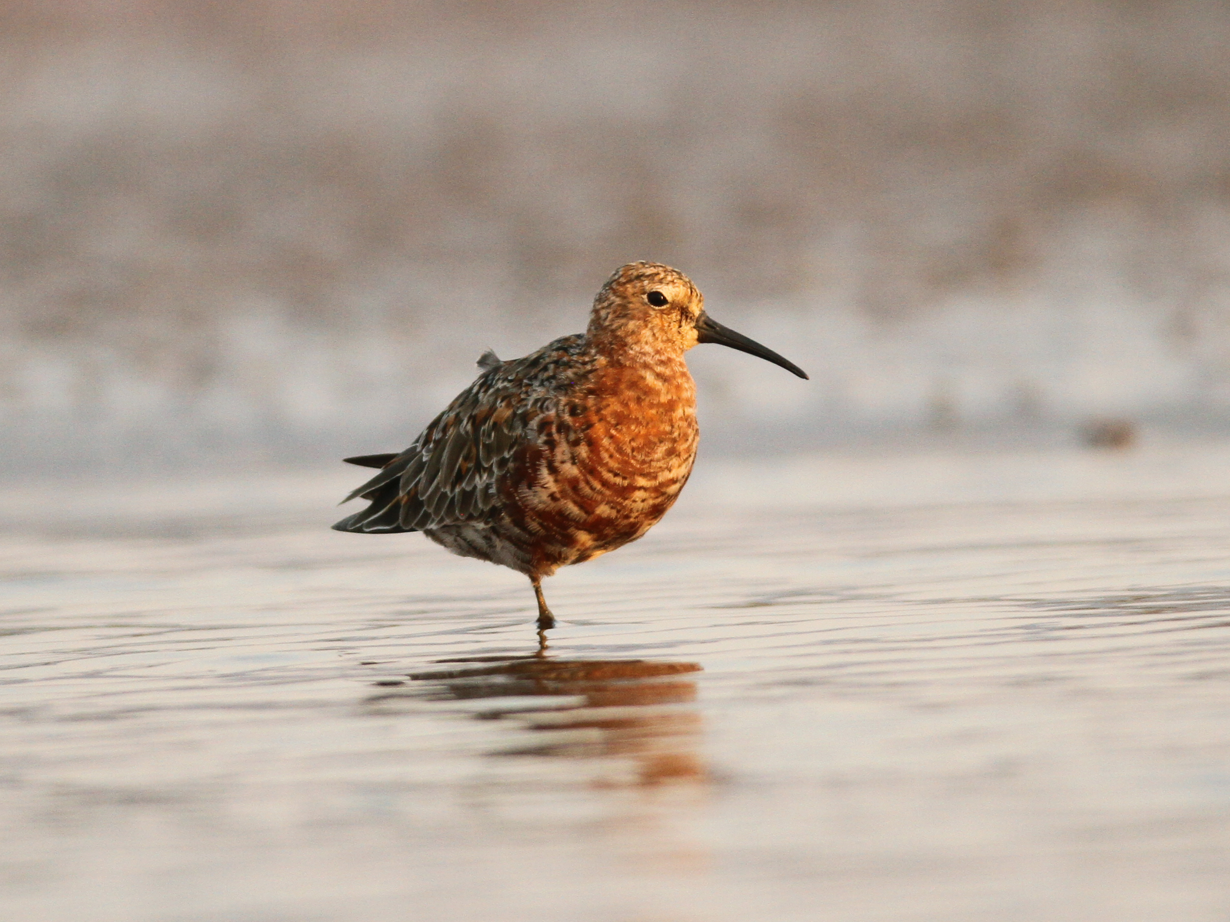 Birds of India